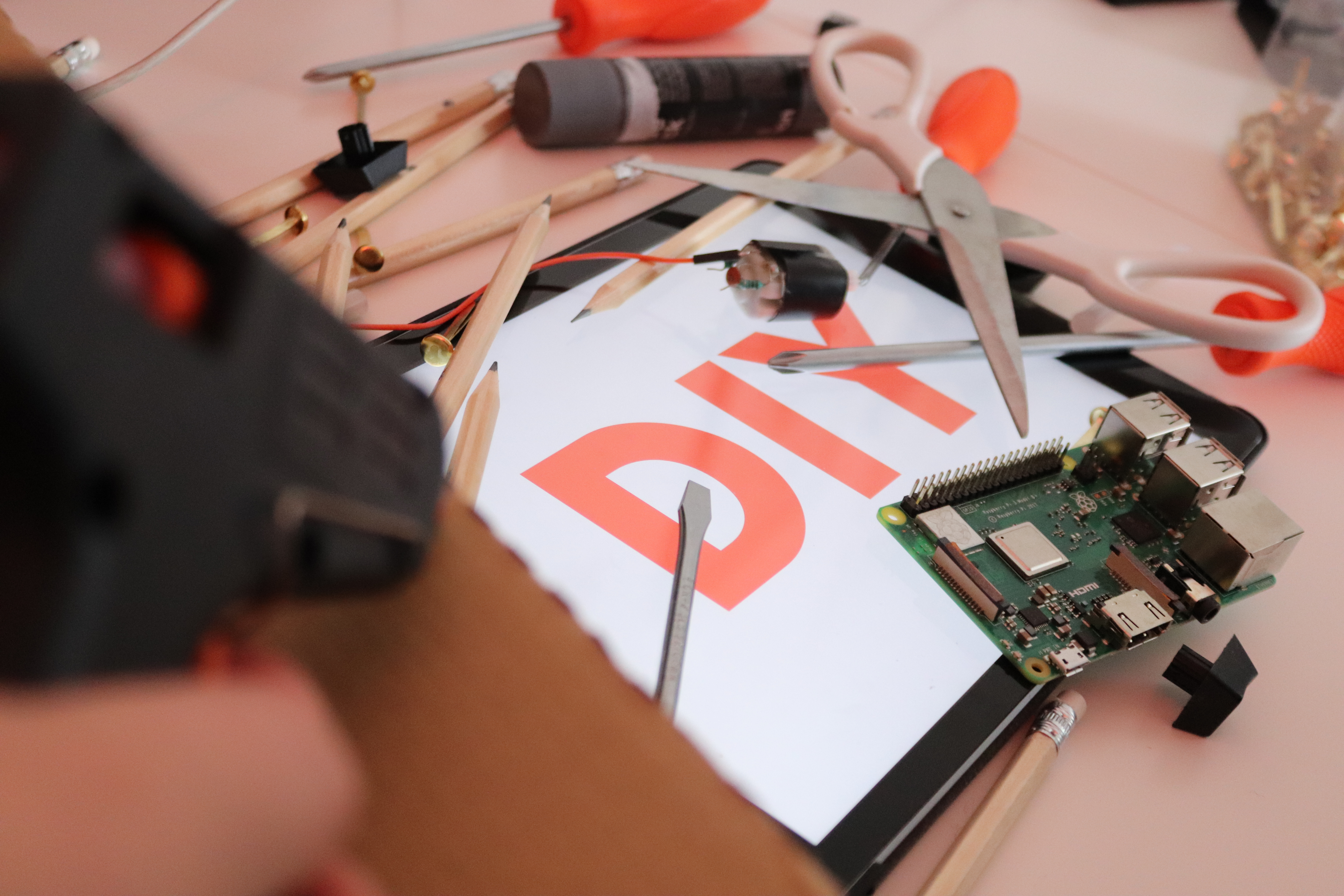 A DIY-project.